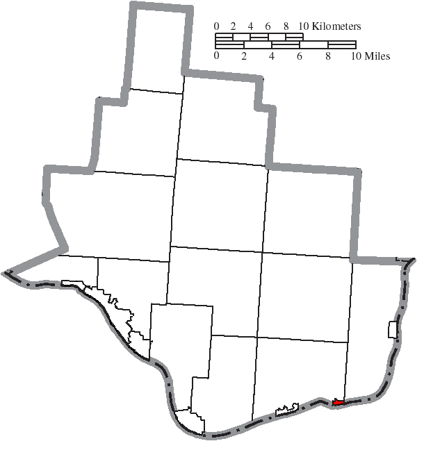 Map of the municipal and township boundaries of Lawrence County, Ohio, United States, as of the 2000 census, with the location of the village of Proctorville highlighted. Township borders are shown only in unincorporated areas in order to differentiate incorporated and unincorporated areas more clearly.